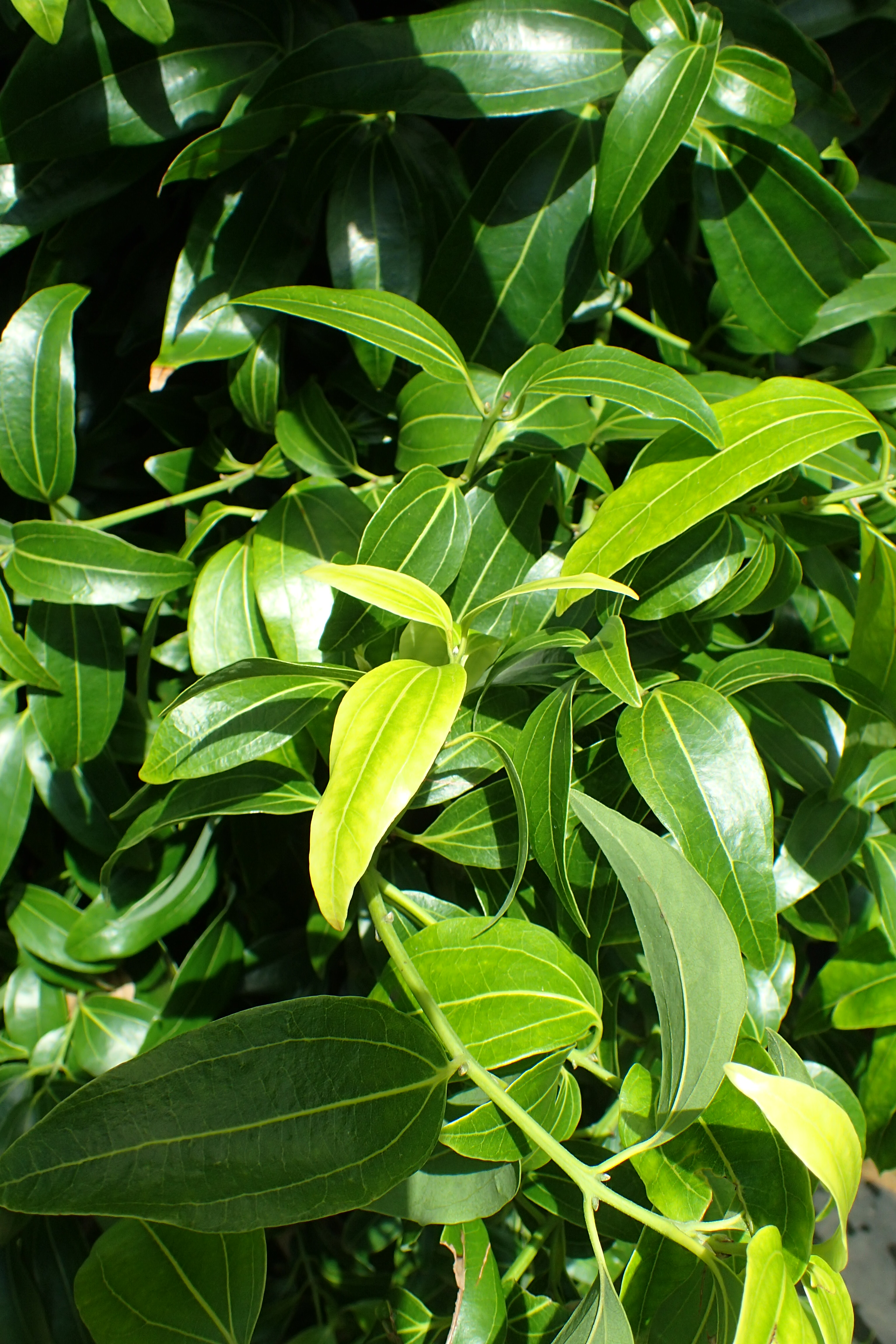 Cinnamomum verum in Boltz Conservatory, Madison, Wisconsin